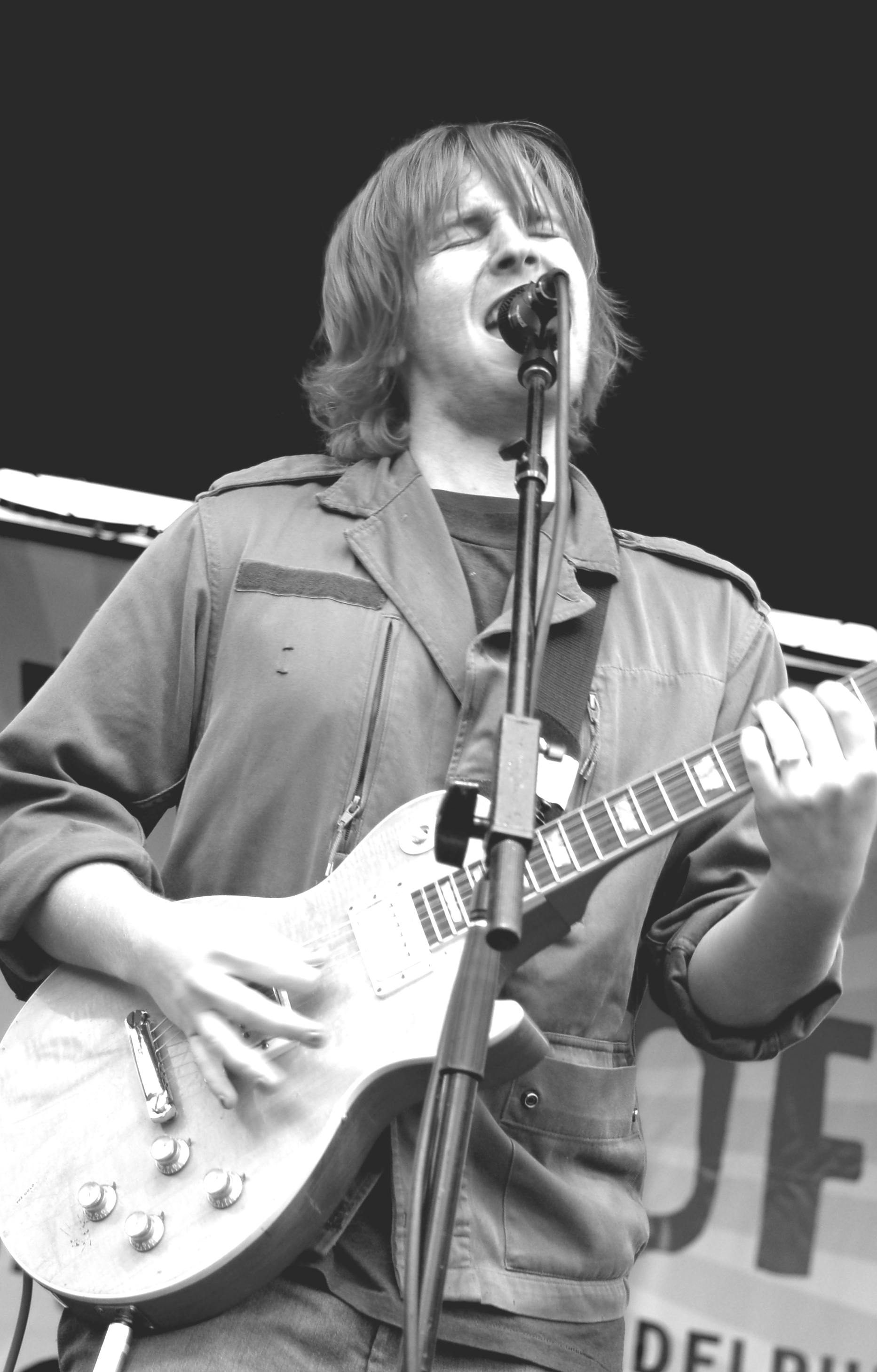 Chris Conley at Campus Philly in Philadelphia, September 29, 2006